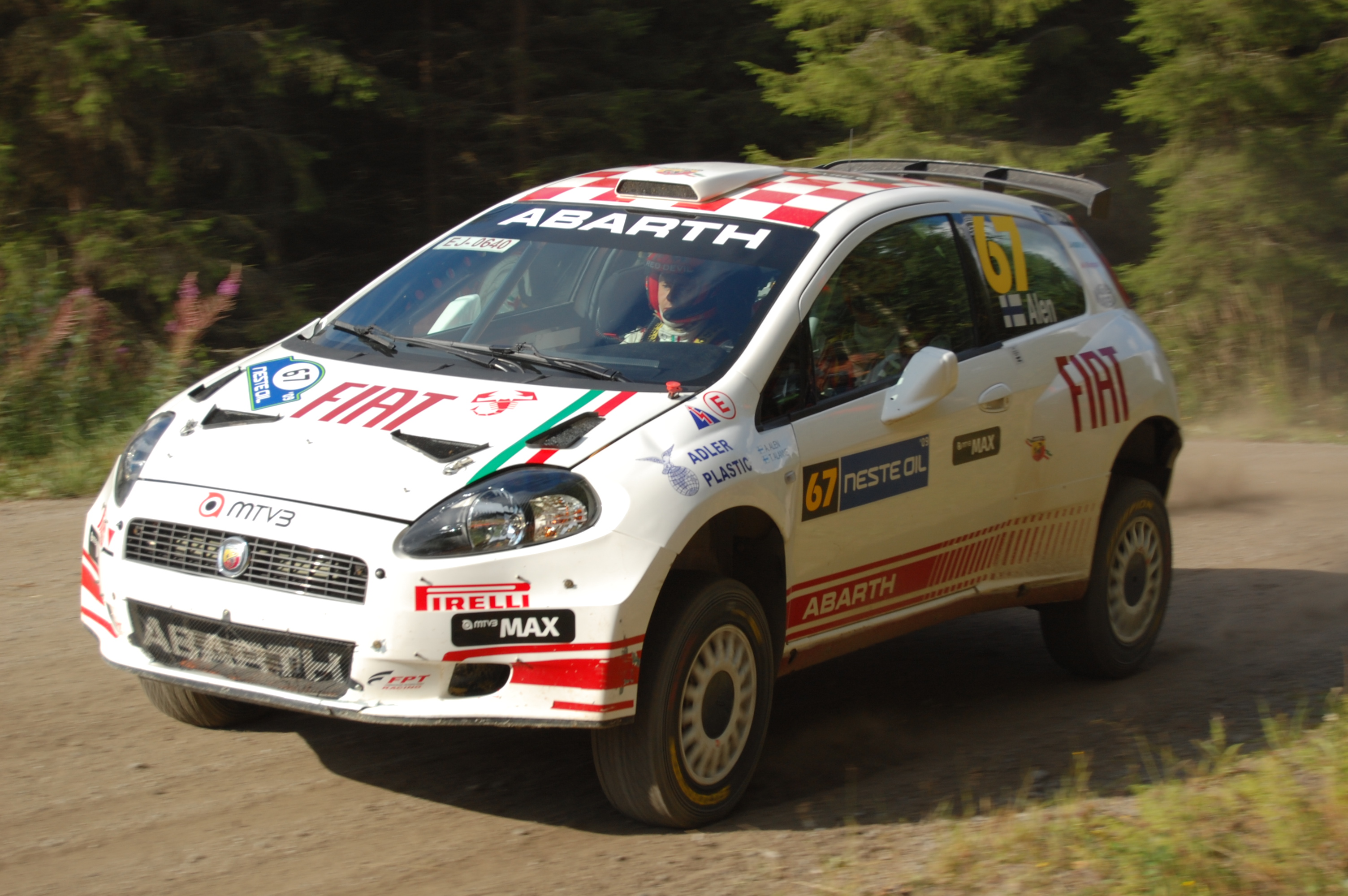 Anton Alen - 2009 Rally Finland. More pictures on my website